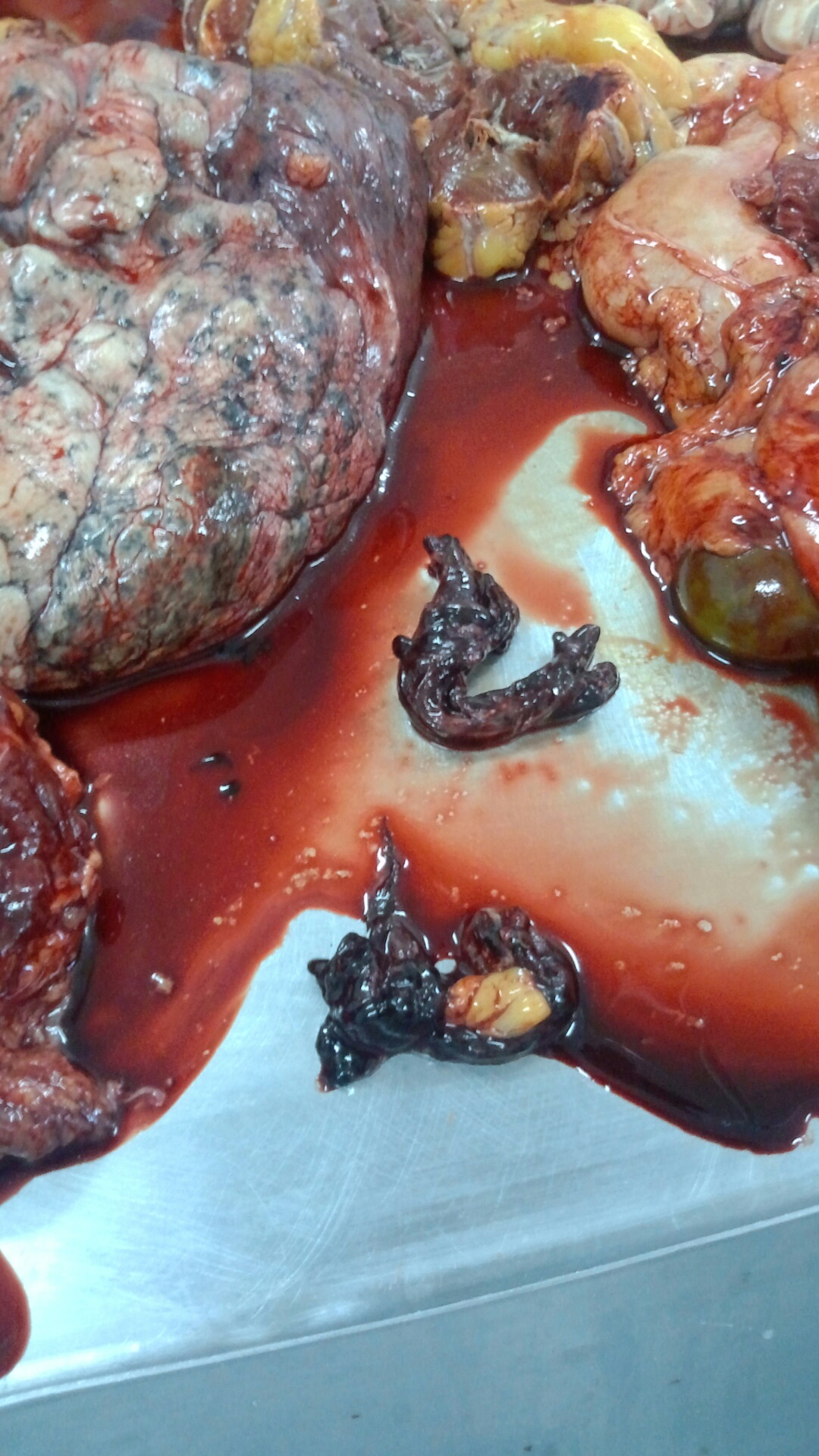 Pulmonary embolism